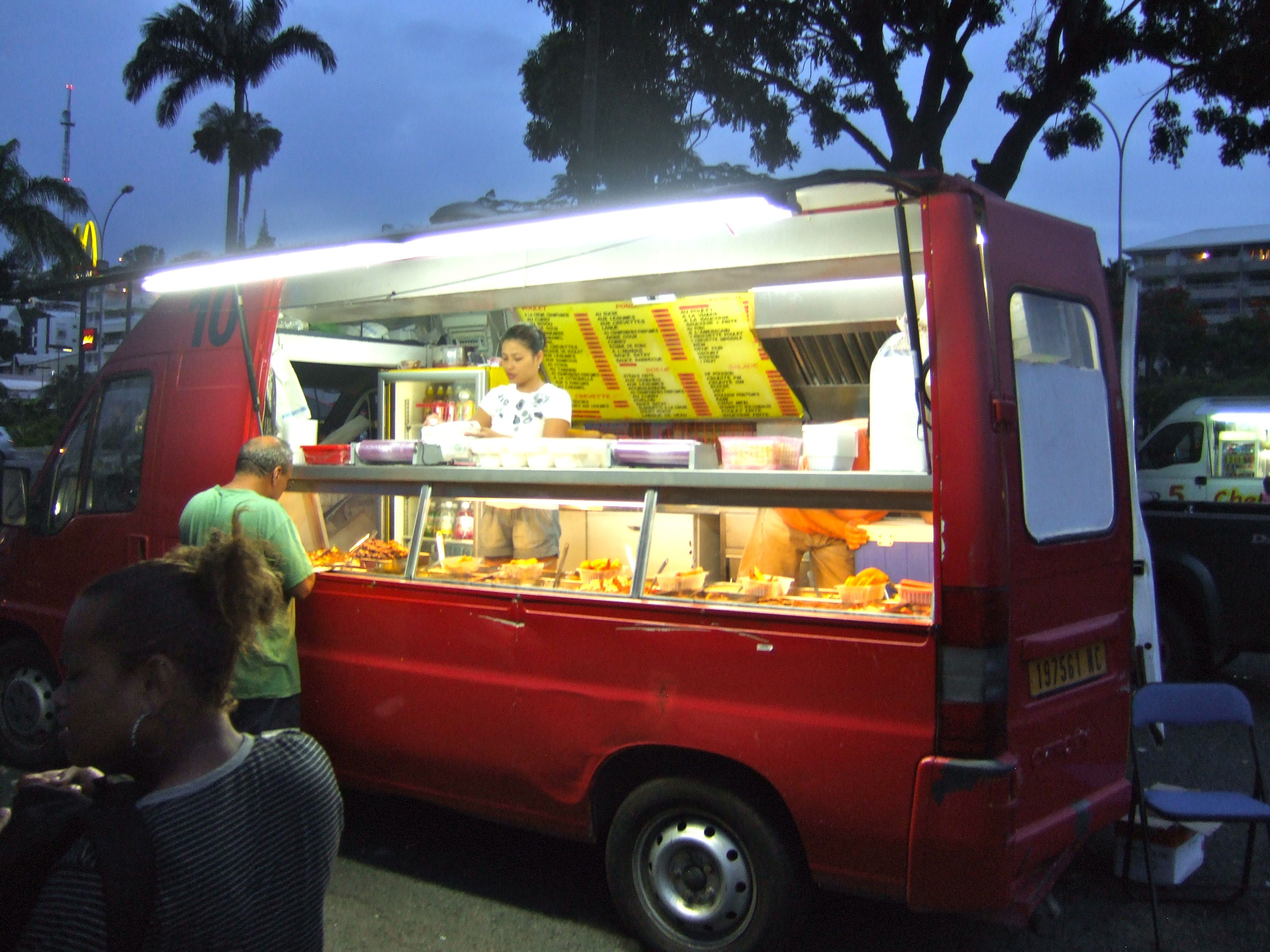 Food truck in Nouméa, New Caledonia, serving Chinese food, 2011. Other information Photo by George Garrigues